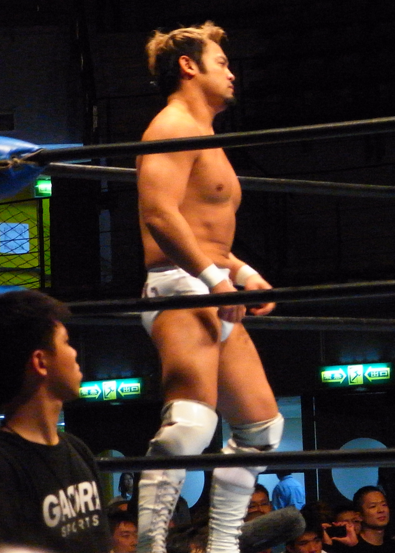 Kaz Hayashi at AJPW "Pro-Wrestling Love in Taiwan 2010", the National Taiwan University Gymnasium, Taipei.